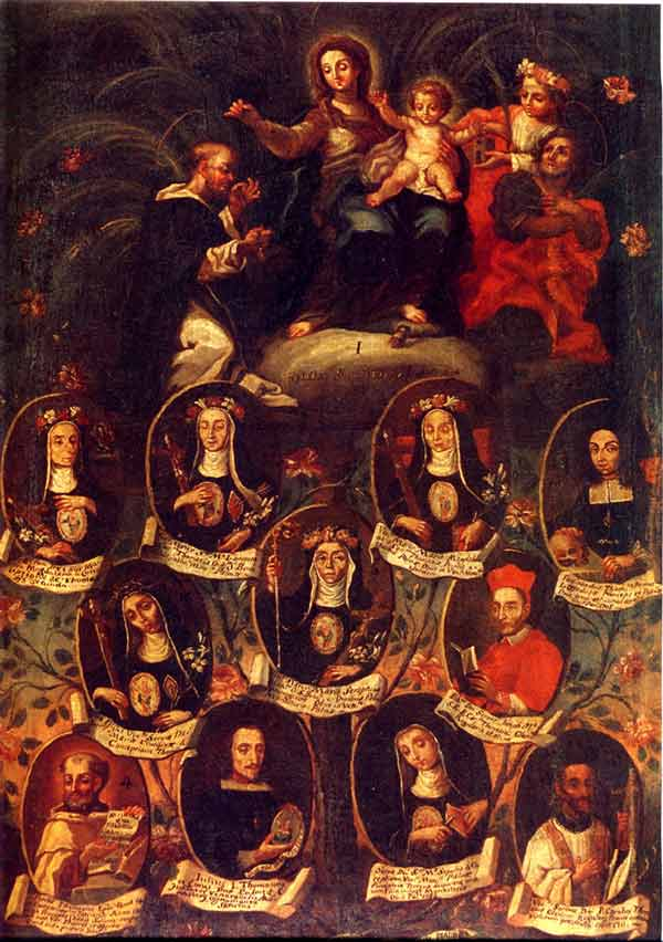 11 clerical members of Tommasi di Lampedusa family